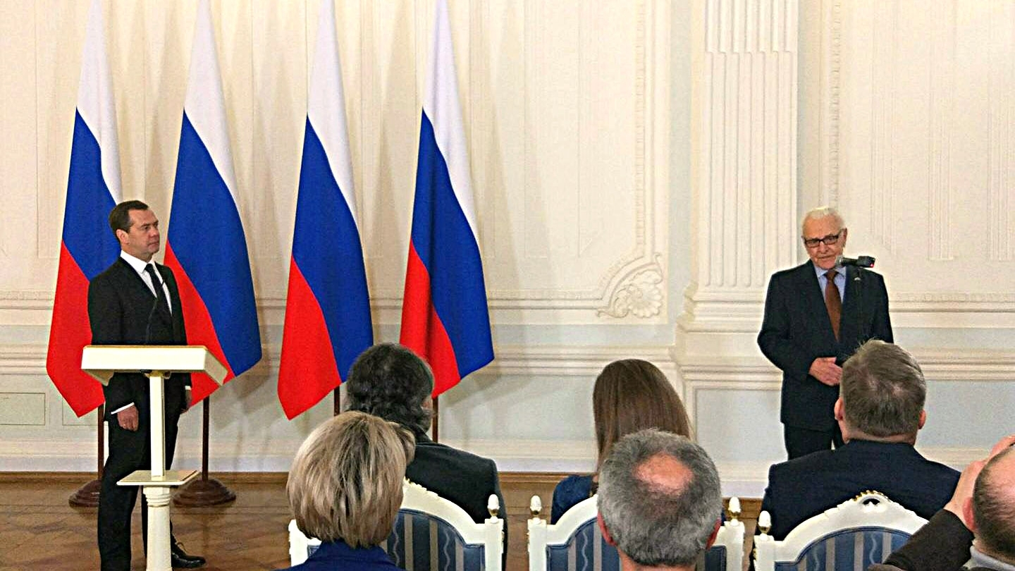 Dmitry Medvedev with Mikhail Nenashev.jpg